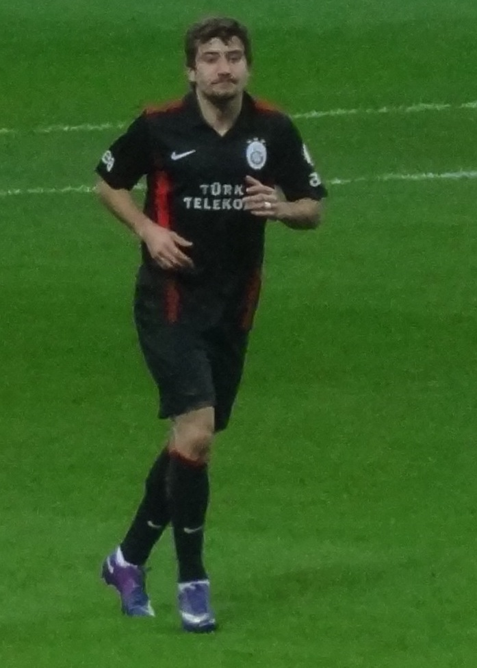 Aydın playing against SİVAS